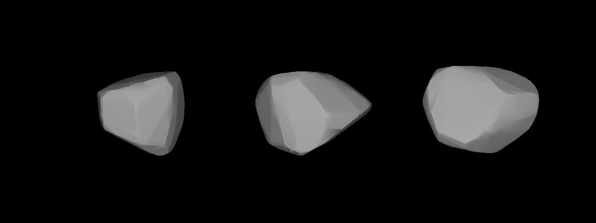 A three-dimensional model of 936 Kunigunde that was computed using light curve inversion techniques.